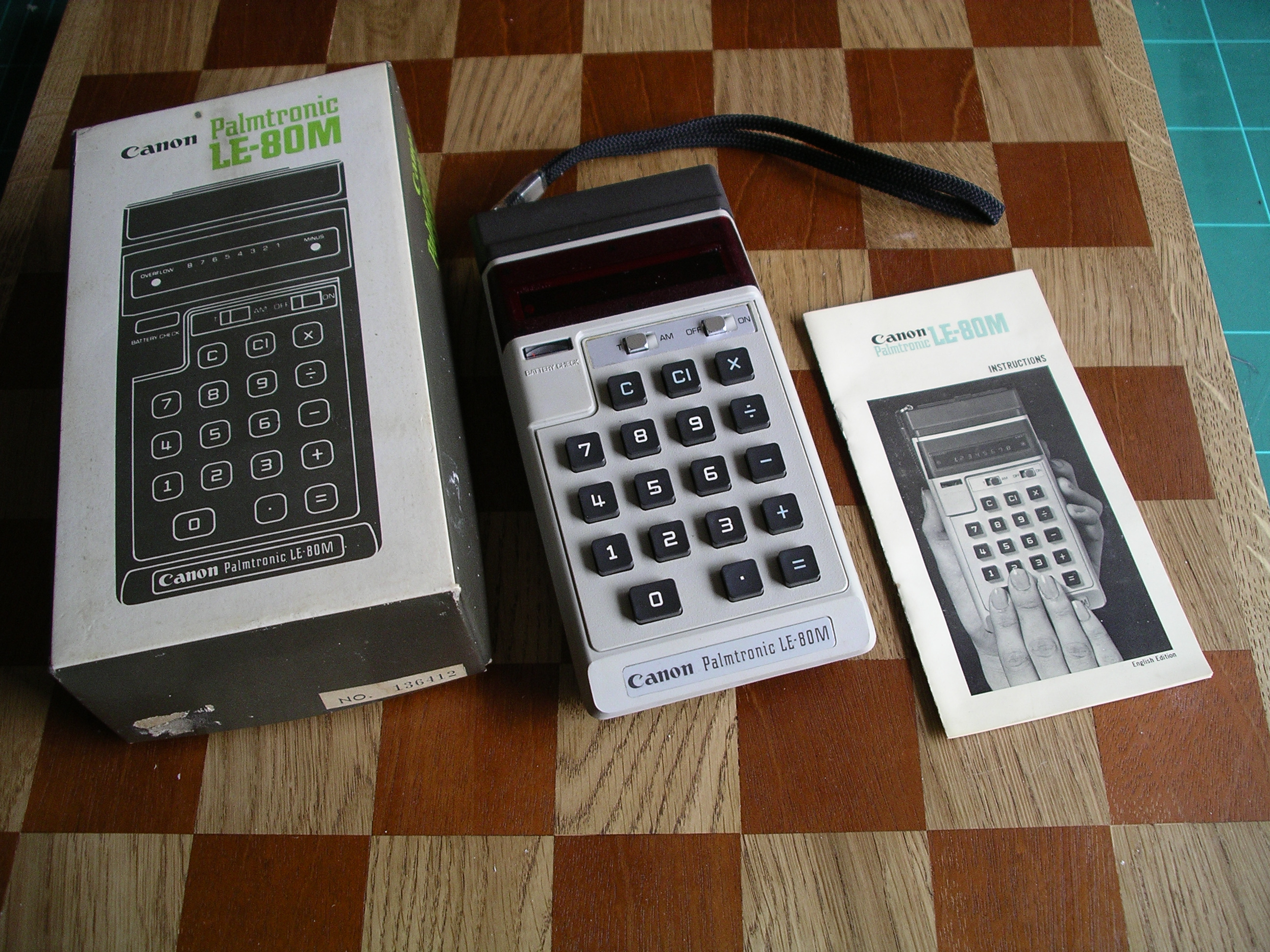 Photo taken by me of Canon Palmtronic LE-80M calculator on 17 October 2006. The background shows 5cm squares. Its box and instruction manual are included.